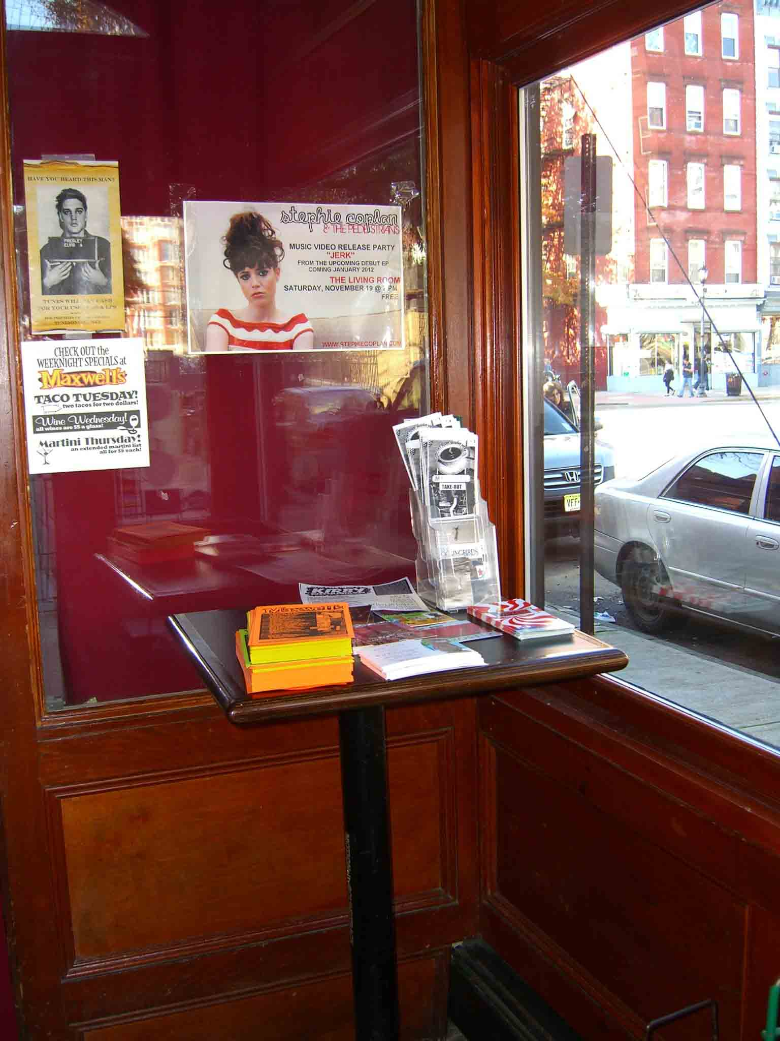 Entrance vestibule to Maxwell's, a music club in Hoboken, New Jersey, as seen on November 7, 2011. This photo was created by Luigi Novi. It is not in the public domain, and use of this file outside of the licensing terms is a copyright violation.